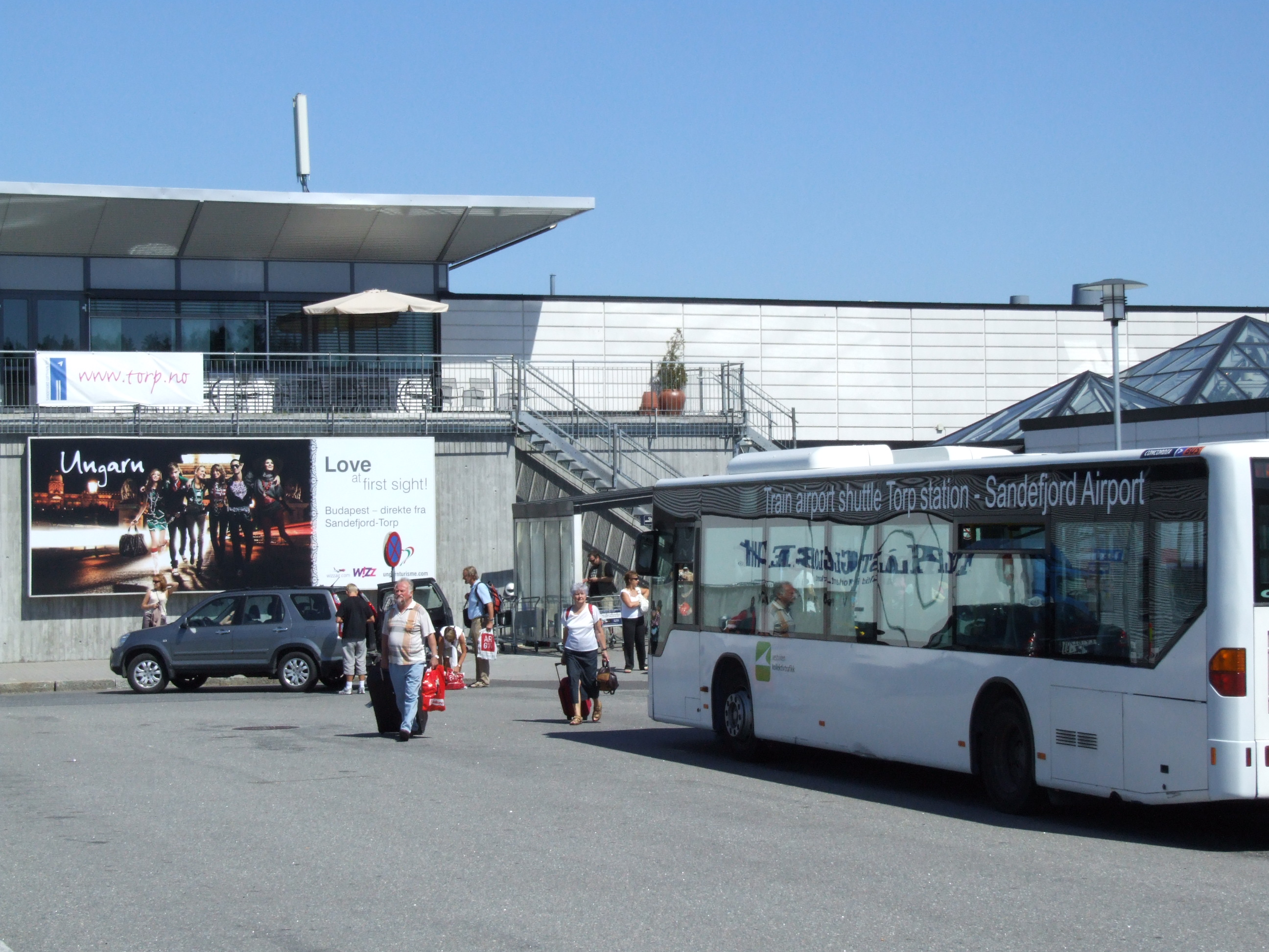 Sandefjord Airport, Torp, Norway